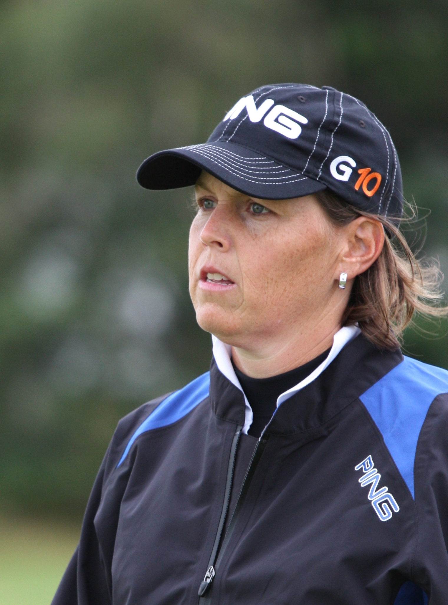 LYTHAM ST ANNES, UNITED KINGDOM - JULY 29: Wendy Ward of USA walks off the 4th green during third practice round before 2009 Ricoh Women's British Open held at Royal Lytham & St Annes on July 29, 2009 in Lytham St Annes, England. (Photo by Wojciech Migda)